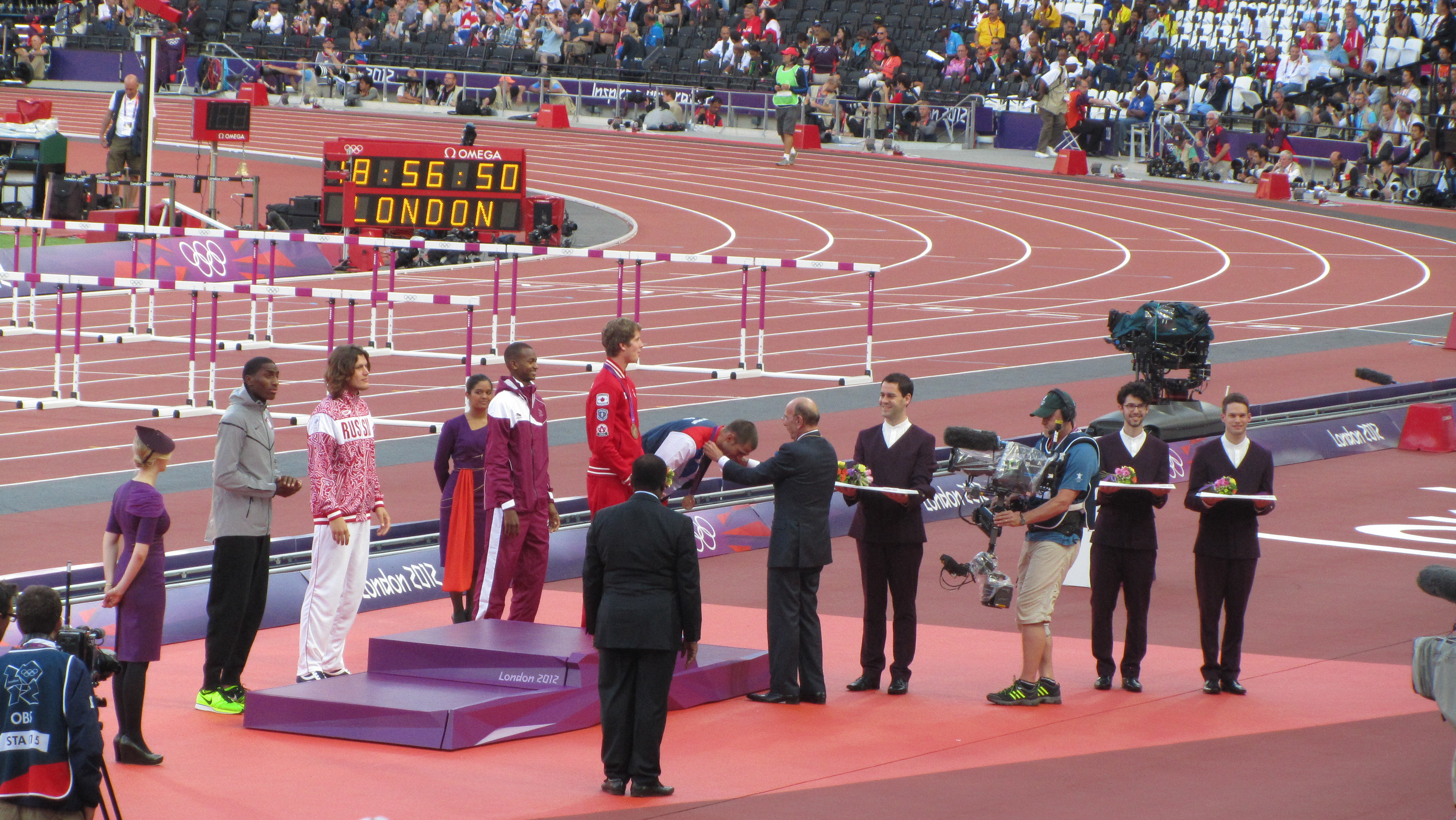 There were three bronze medalists: Derek Drouin (Canada - in the red tracksuit); Robert Grabarz (Great Britain and Northern Ireland - in the blue and white tracksuit) and Mutaz Essa Barshim (Qatar - in the purple and white tracksuit). Erik Kynard, Jr. (USA - grey and black tracksuit) won silver and Ivan Ukhov (Russia) won gold.